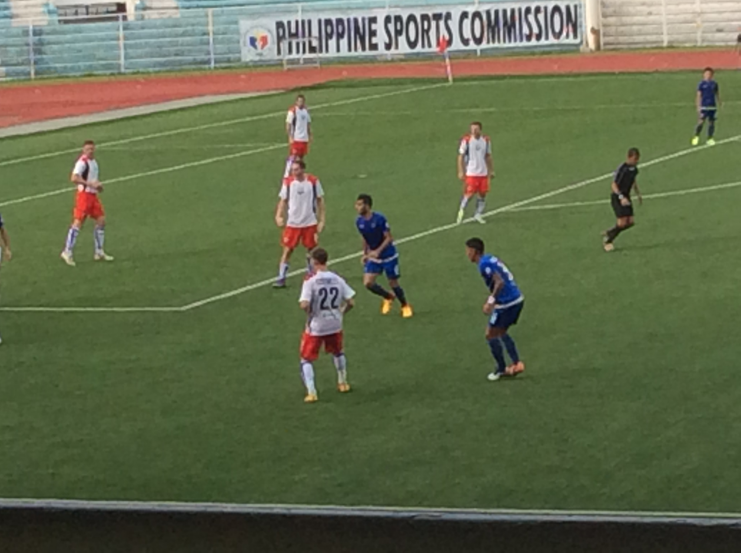 Friendly match between Philippine club, Global F.C. and Australian club, Perth Glory. The match ended in 0-0 draw.